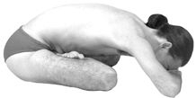 Padma Kúrmásana